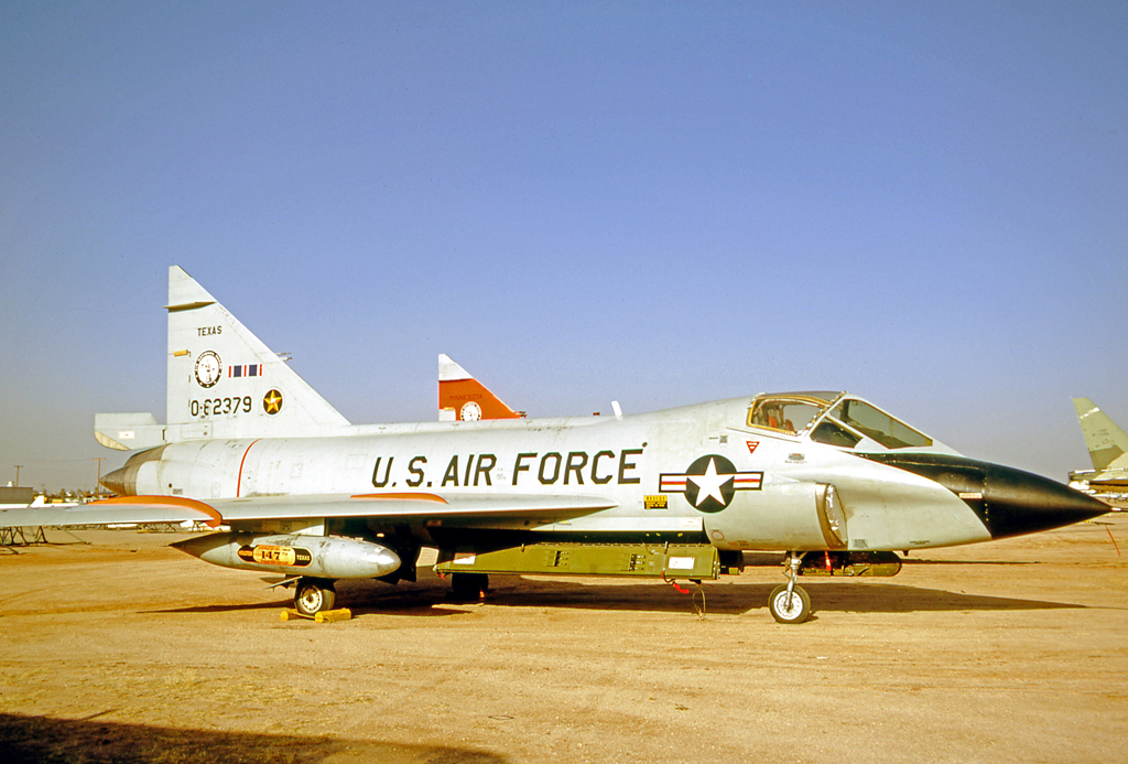 Convair TF-102A Delta Dagger 0-62379 of 111 Fighter Interceptor Squadron, 147 Fighter Group, Texas Air National Guard in 1971